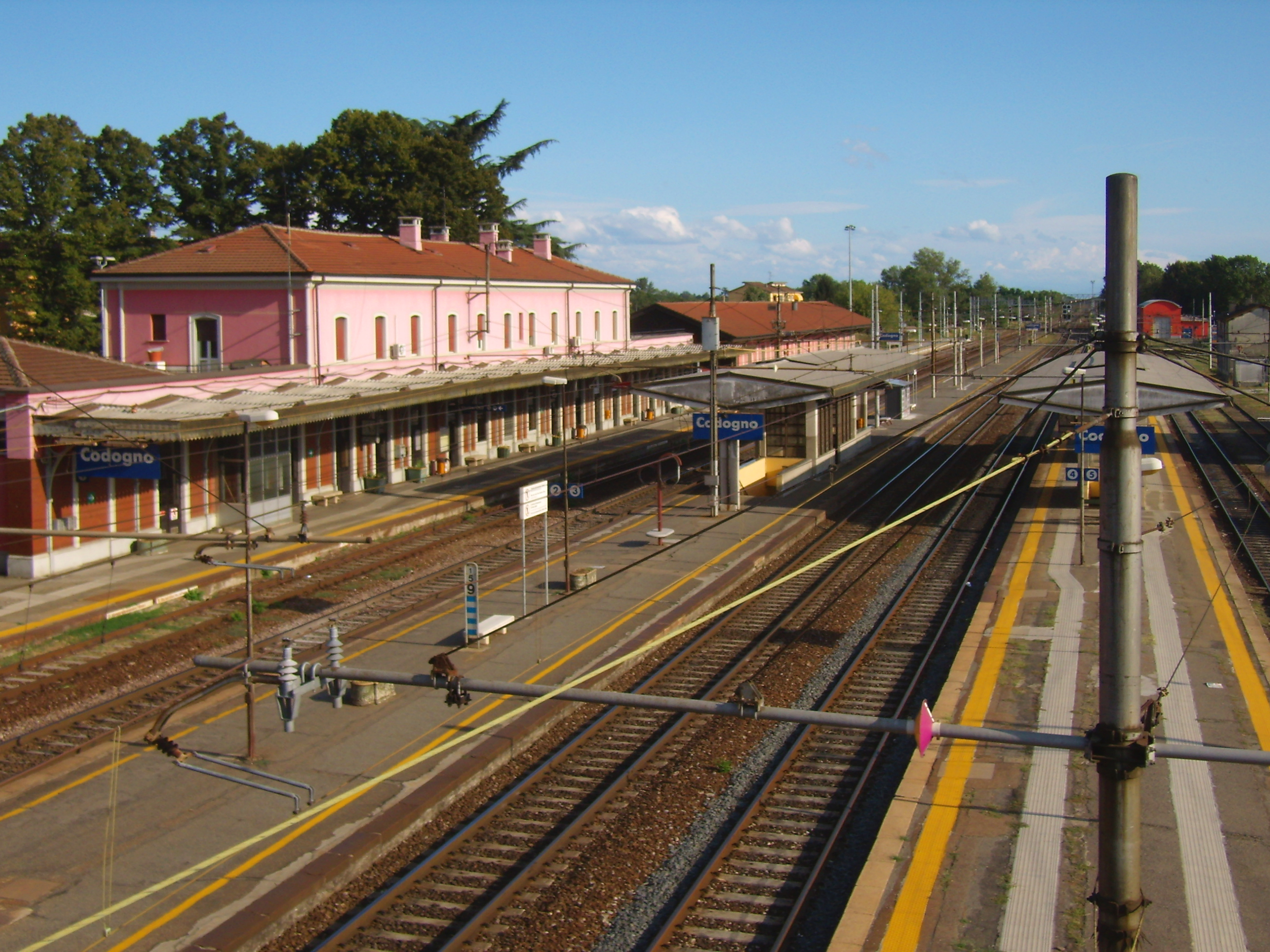 Railway station in Codogno (LO), Italy, panoramic view